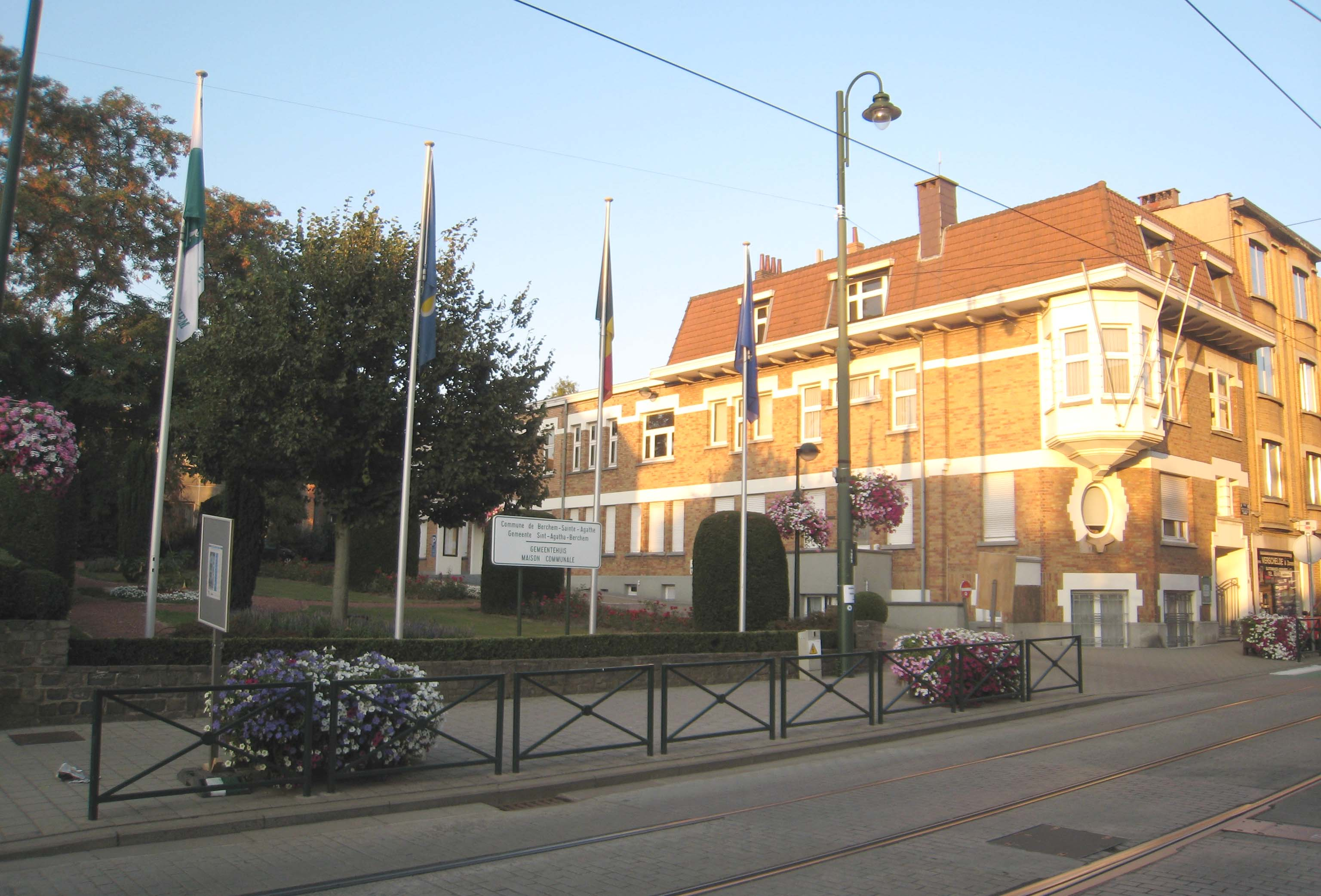 Town hall (maison communale / gemeentehuis) of Berchem-Sainte-Agathe / Sint-Agatha-Berchem